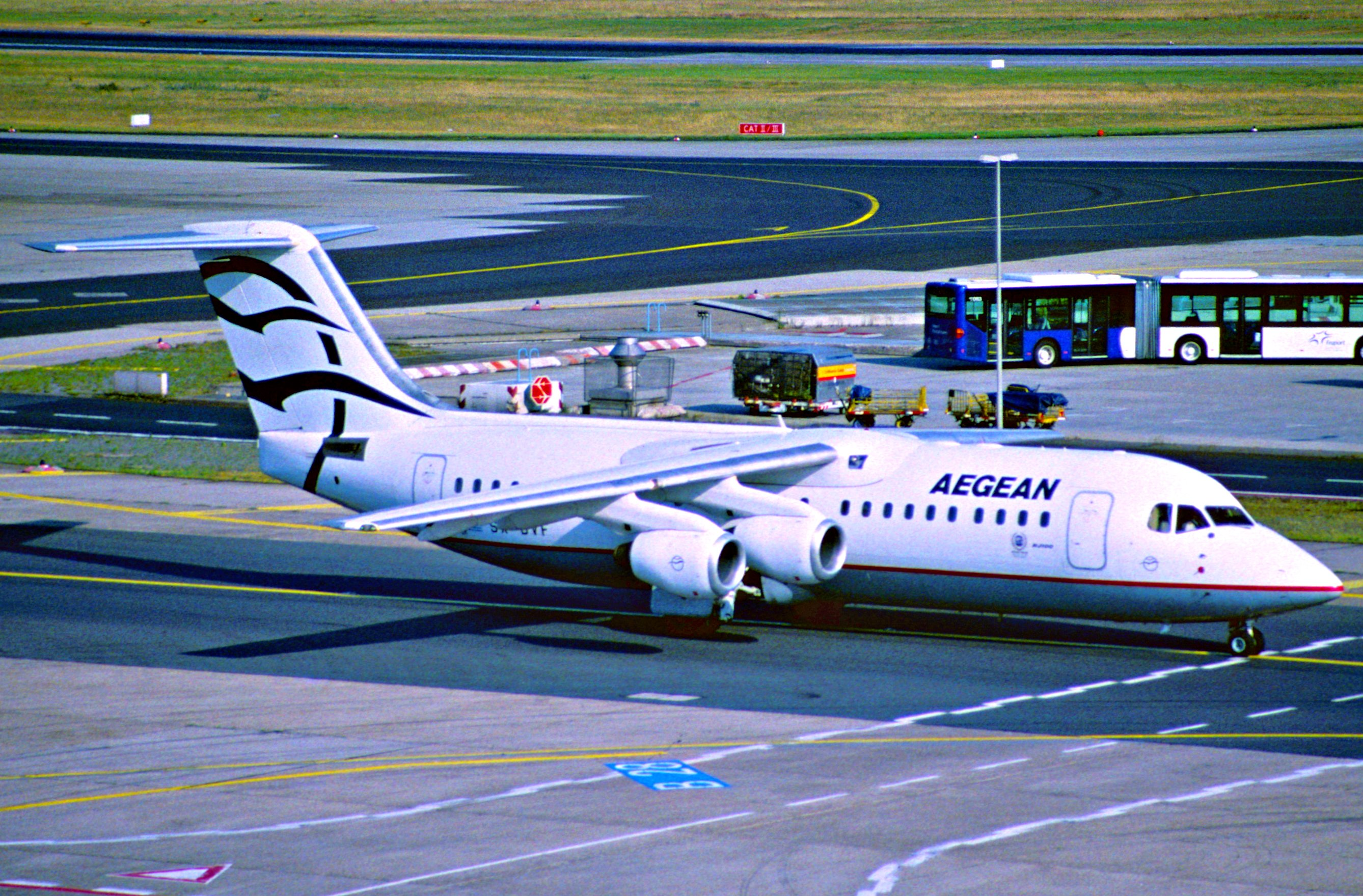 First flight: July 6, 2000 (c/n E3375)... 12/07/2000 Aegean Aviation SX-DVF 28/10/2001 Aegean Airlines SX-DVF stored 07/2010